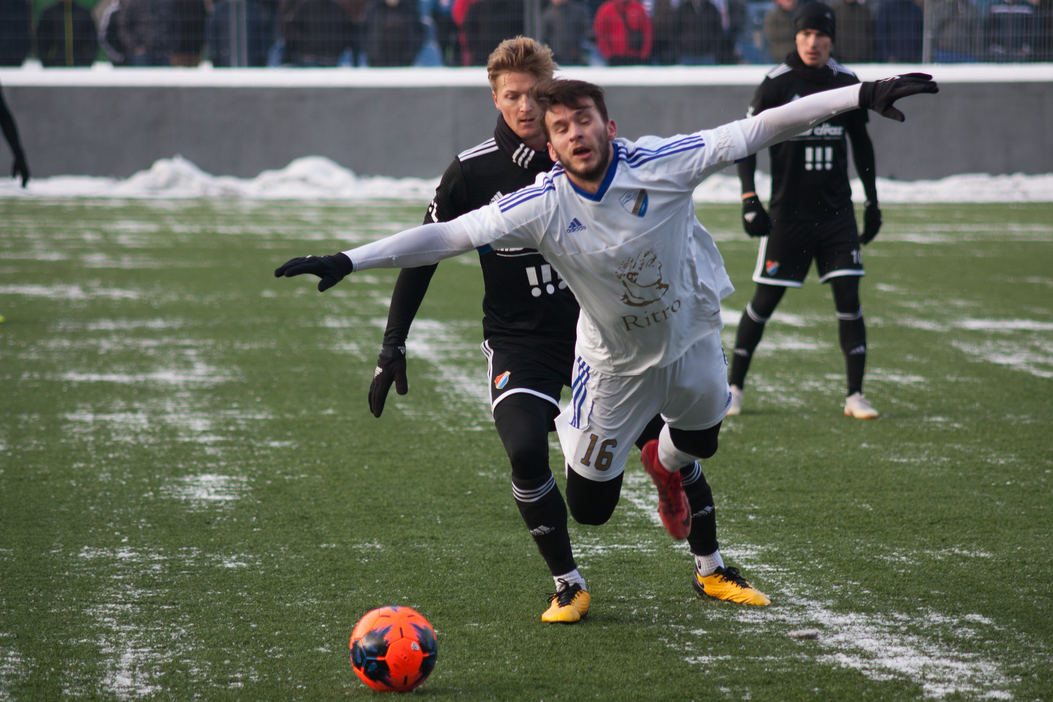 Czech Winter Tipsport League match FC Baník Ostrava-FK Poprad played on 11 January 2019